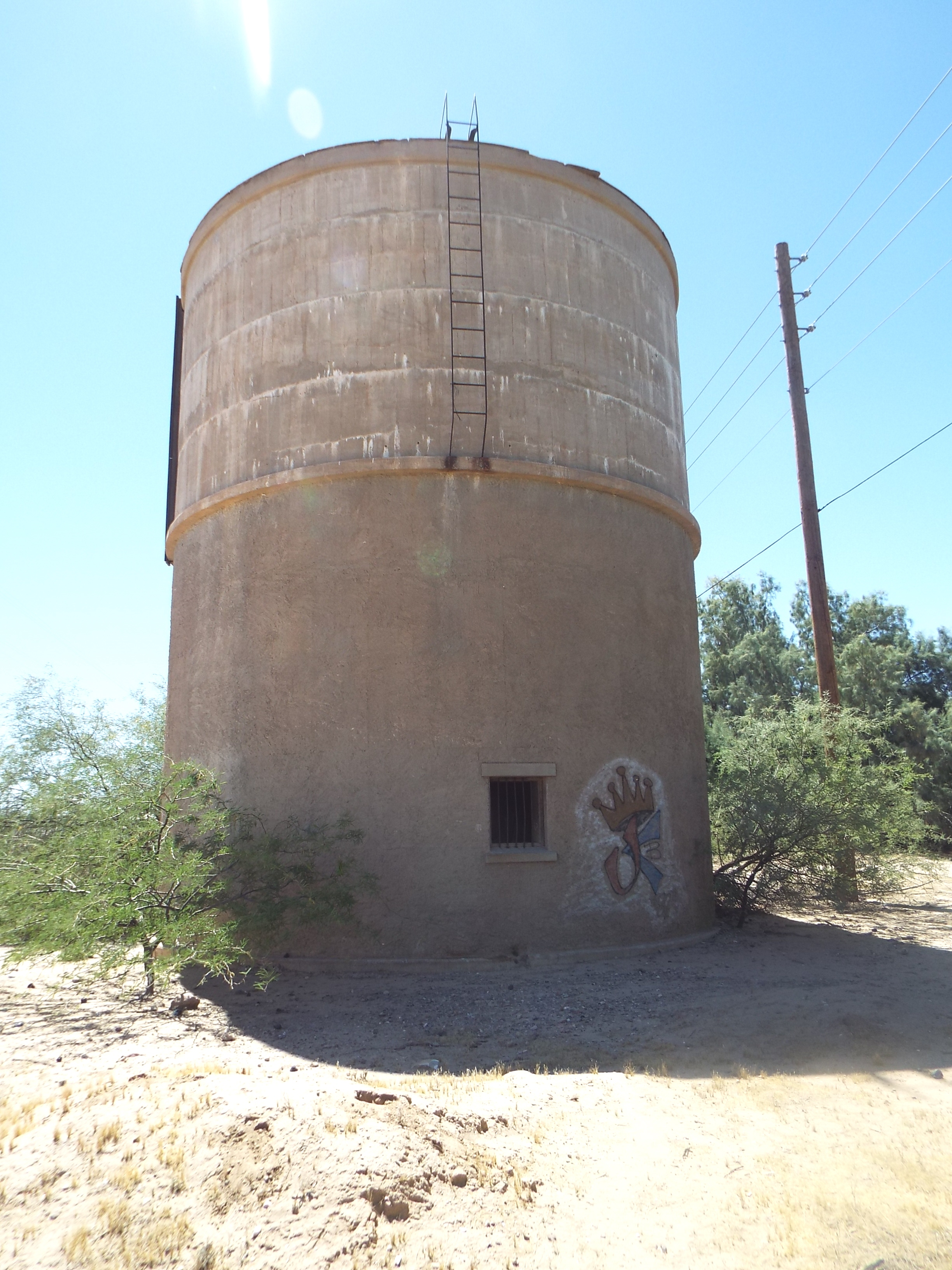 1900's Railroad Water Tank in Queen Creek, Az.